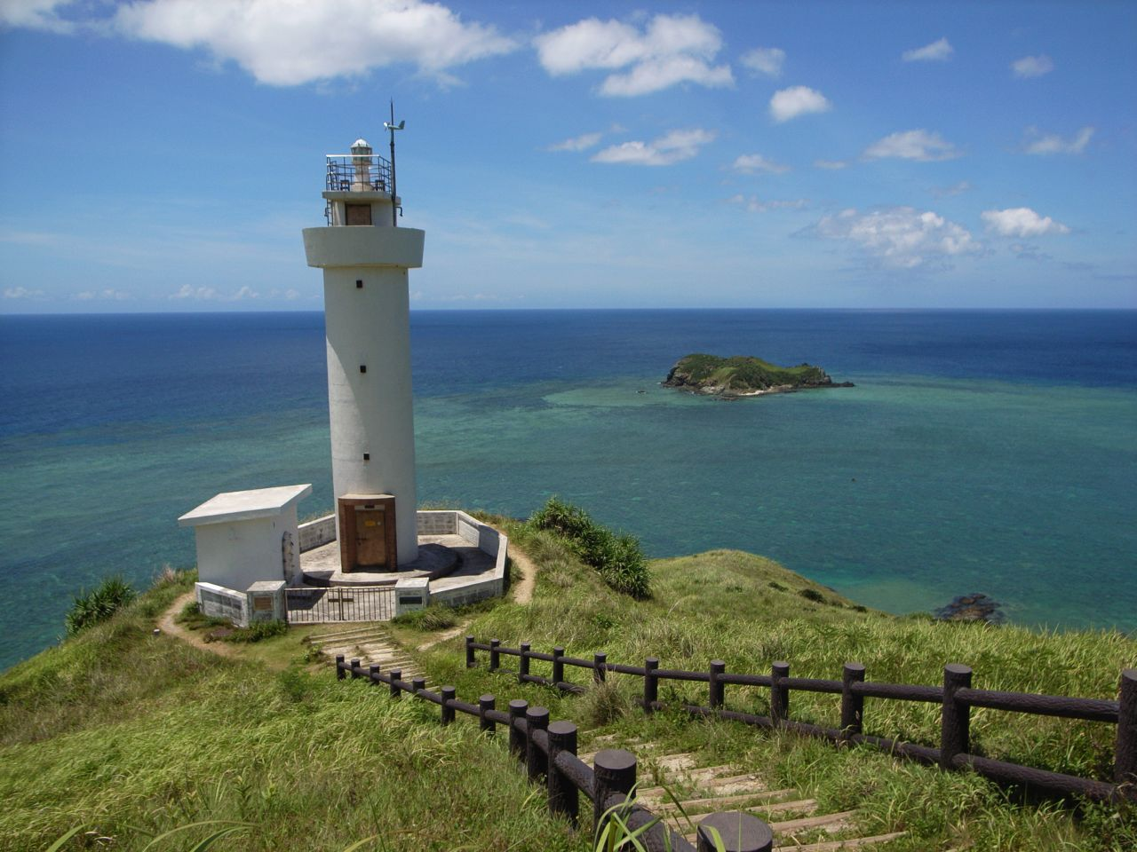 Hirakubo Lighthouse (平久保灯台) at the northernmost point of Ishigaki Island, Ishigaki City, Okinawa, Japan